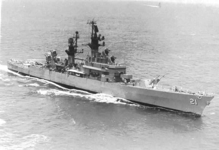 The U.S. Navy guided missile cruiser USS Gridley (DLG-21) underway at sea, in the 1960s.